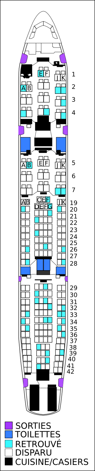 Seating chart Air France Flight 447 indicating bodies recovered in the 2009 searches (French)